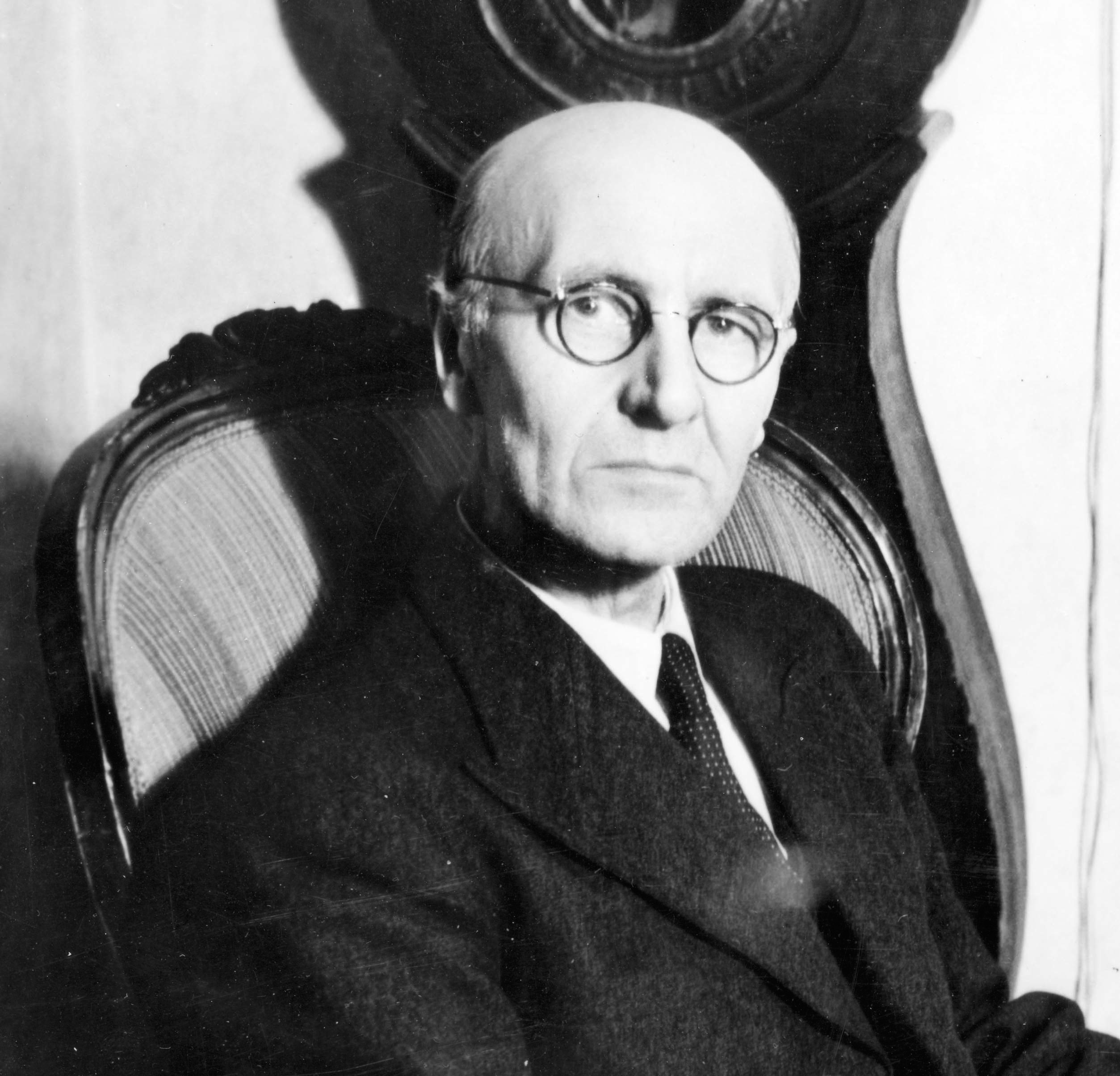 Photograph of the Finnish artist Germund Paaer (1881–1950).